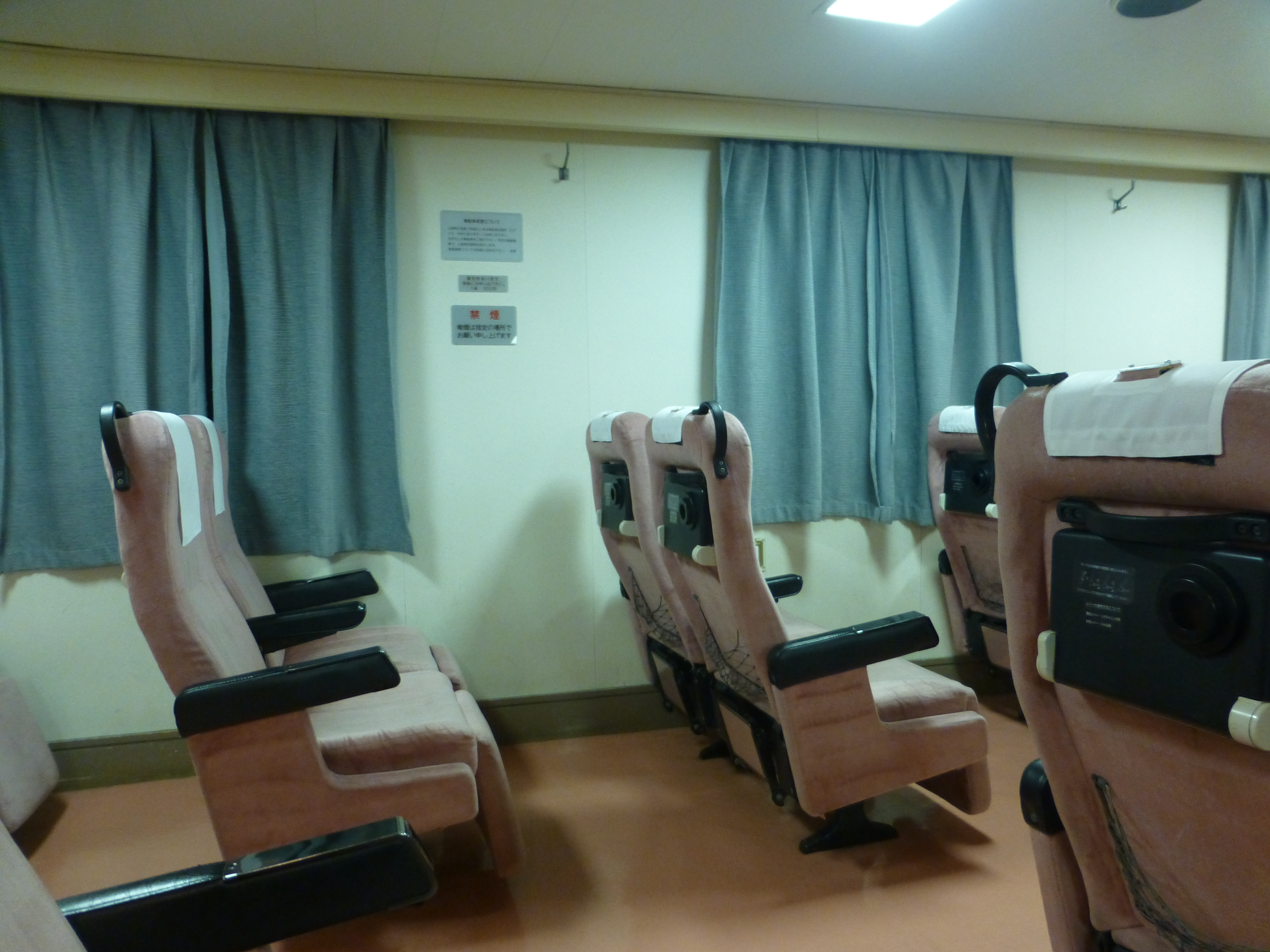 2nd class chair seat cabin of Salvia Maru. 中文（台灣）: 一串紅丸的椅座二等艙